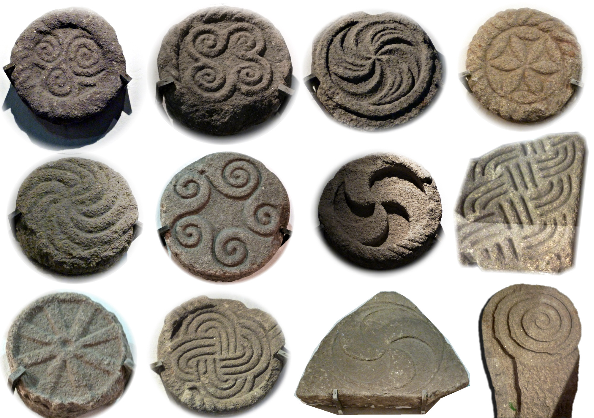 Selection of carvings from the Castro de Santa Tegra, A Guarda, Galicia.